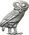 Glaucus, the mythical owl of goddess Minerva/Athena, symbol of the city of Athens